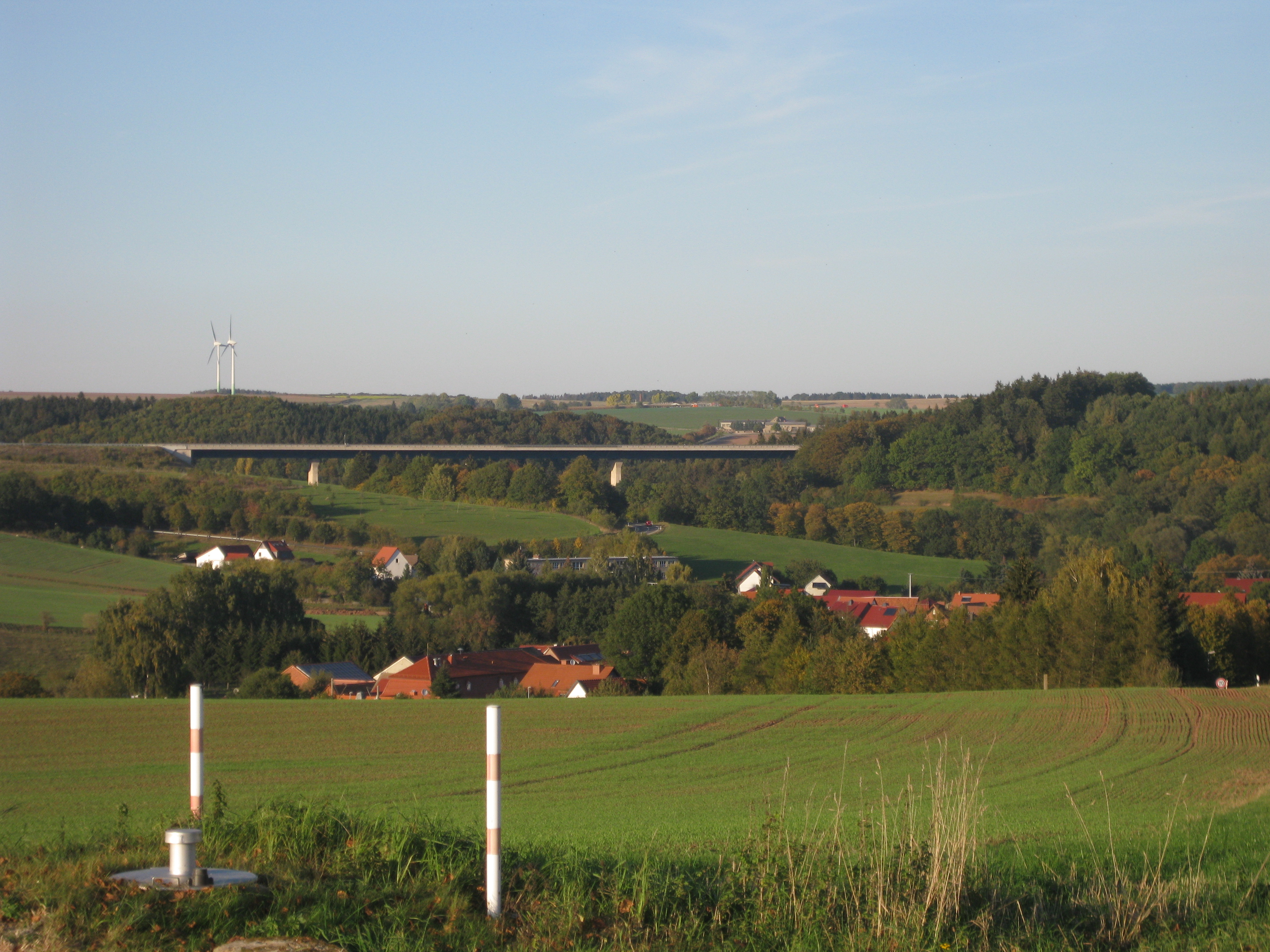 Steinbachtal-bridge with Bodenrode